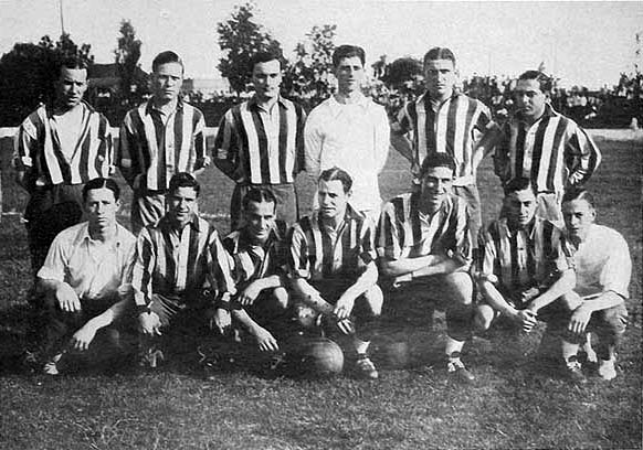 The Estudiantil Porteño football team that won the Primera División title for the first time.